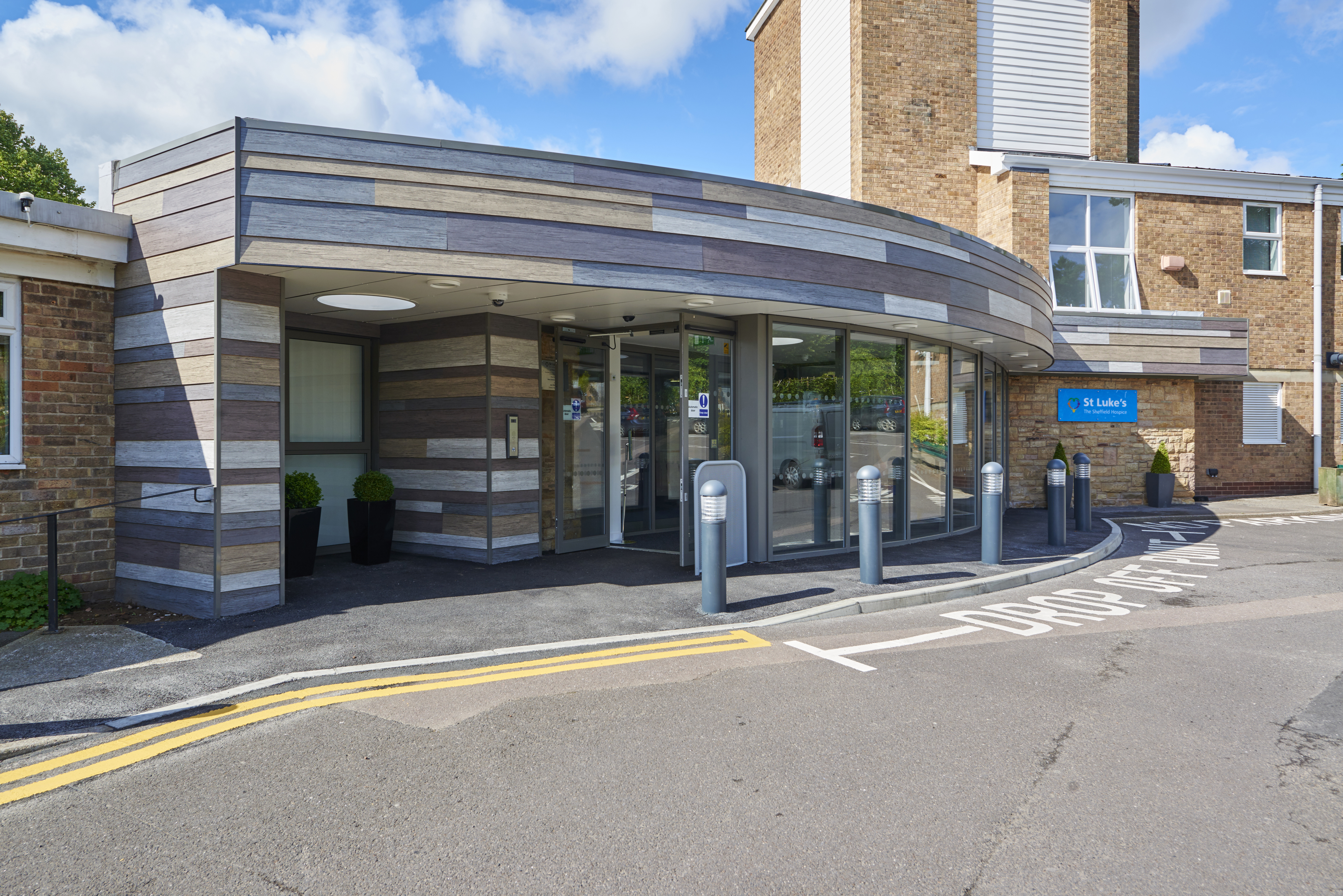 St Luke's Hospice Entrance Sheffield